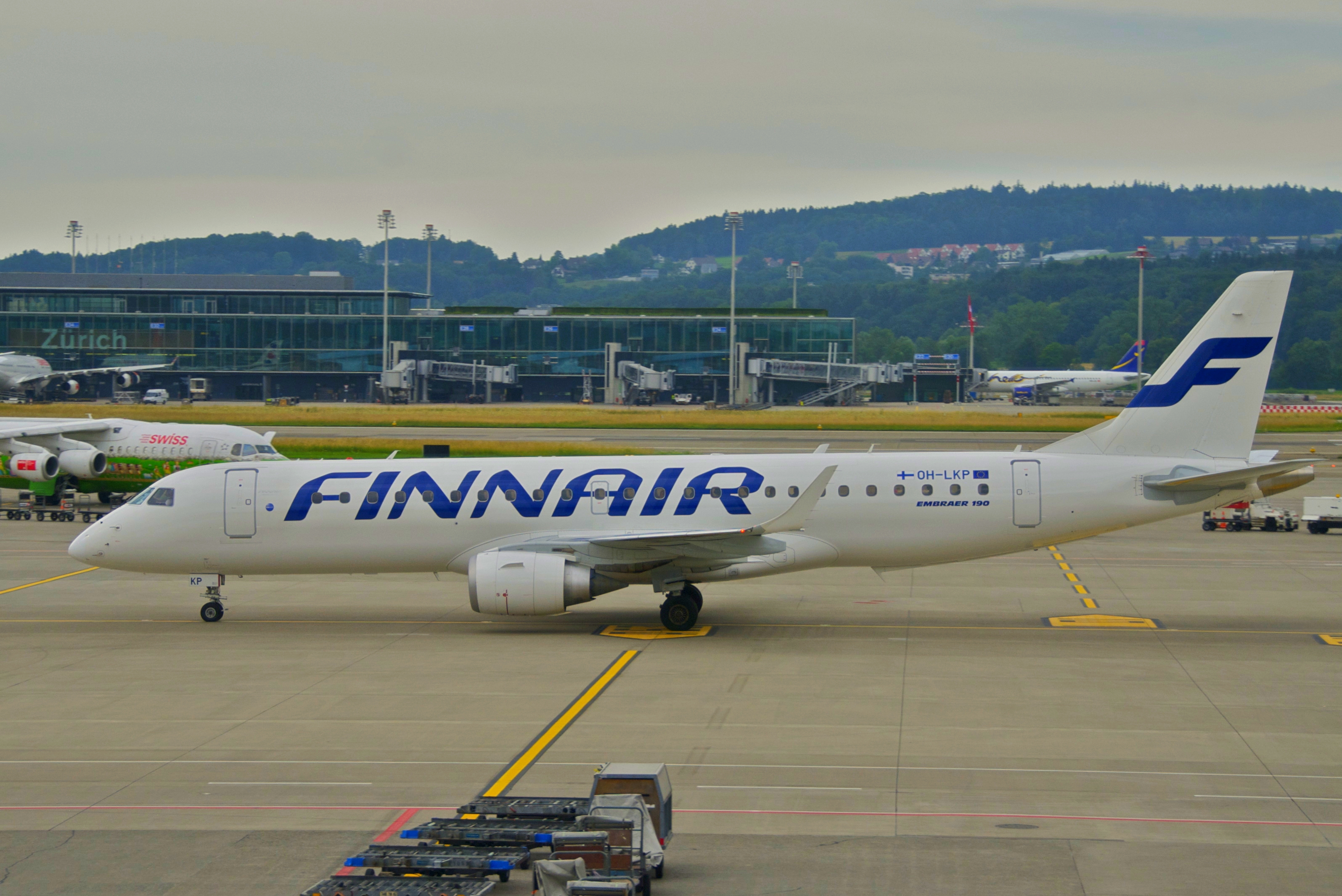 An Embraer ERJ-190-100LR aircraft (OH-LKP) of Finnair at Zurich International Airport on 4 July 2012.